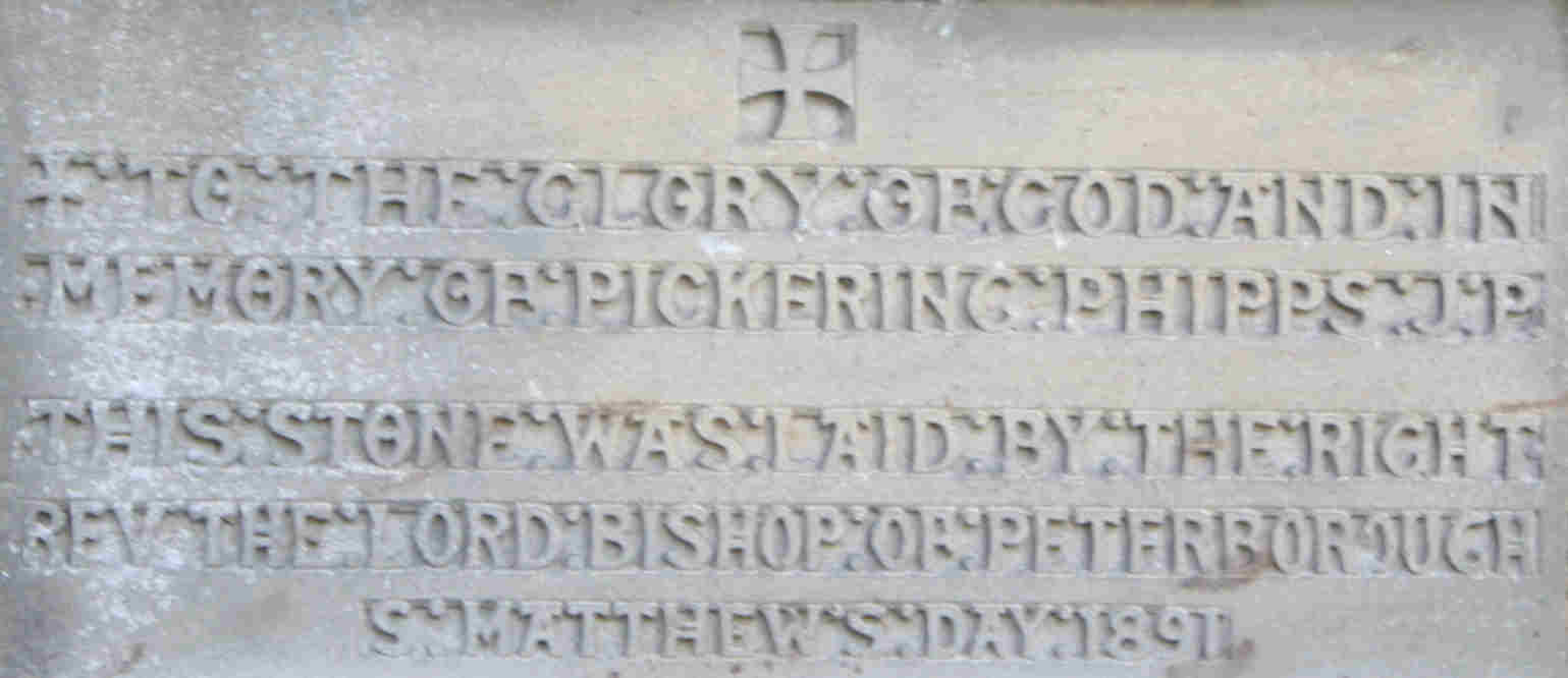 Foundation Stone of St Matthew's Church, Phippsville, Northampton, England